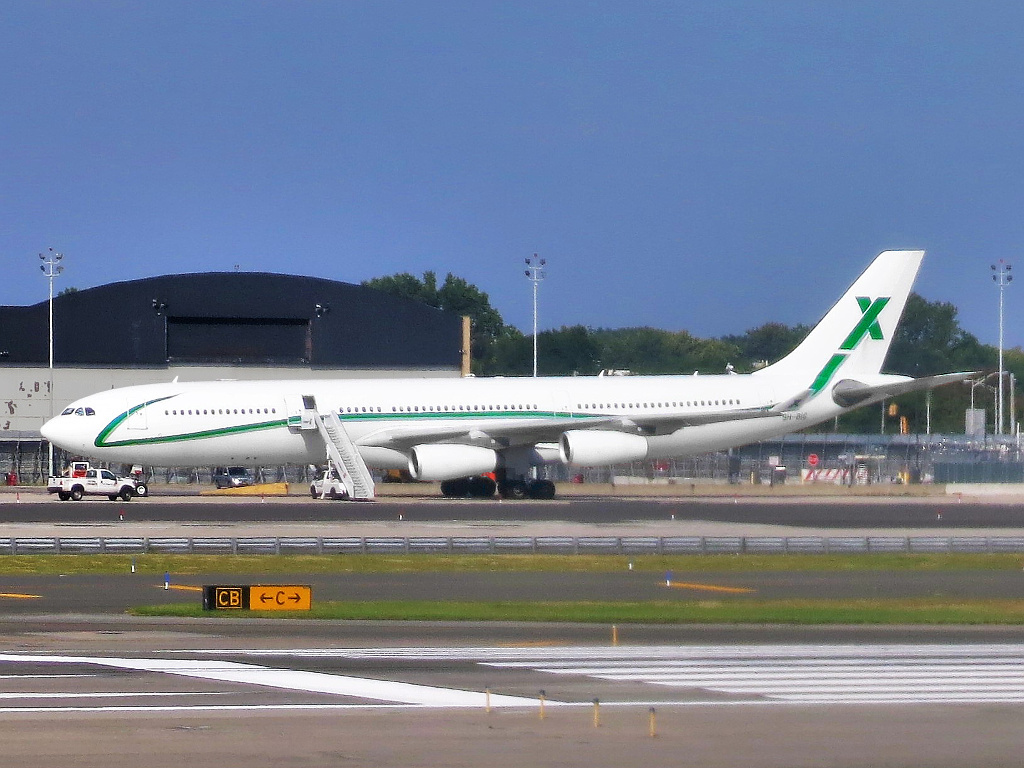 Air X Executive Jets' Airbus A340-300, previously operated by Sri Lankan Airlines and AOM French Airlines/Air Lib, is parked at the new VIP parking area at JFK Airport, near the FedEx Express cargo terminals, loading its VIP passengers for a trip to EuroAirport Basel (MLH, BSL, EAP).